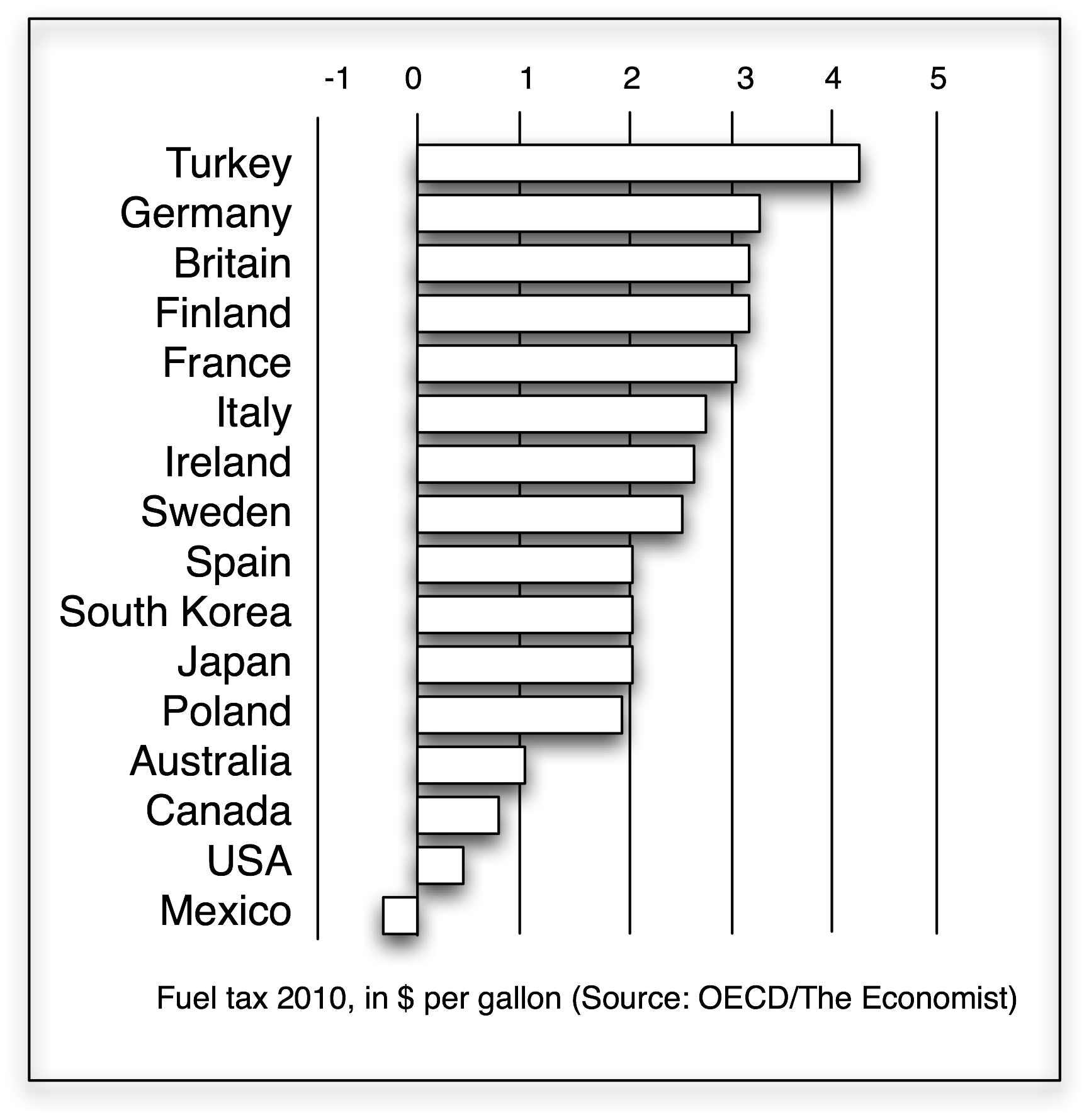 Fuel tax in different countries, in $ per gallon. As of 2010. Source: OECD/The Economist, 25 Sep 2010, p. 110.